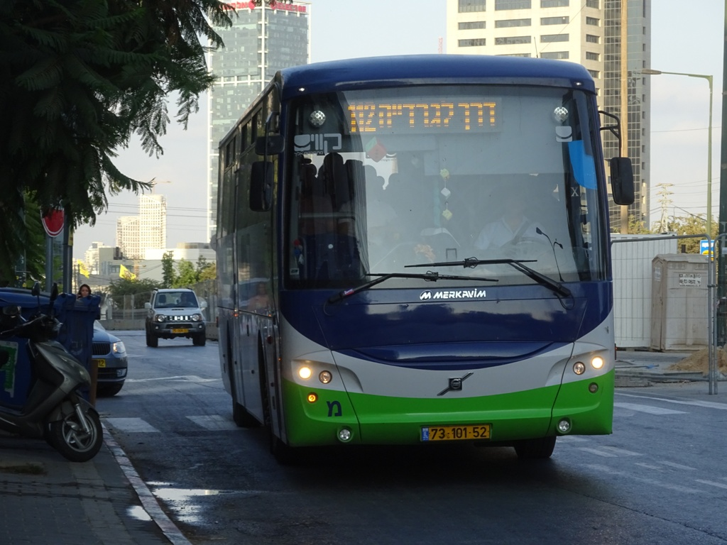 A Volvo B7R bus on route 112 to Modi'in at Begin Road in Tel Aviv